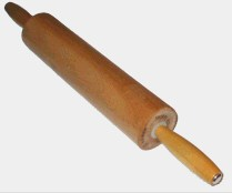 Rolling Pin